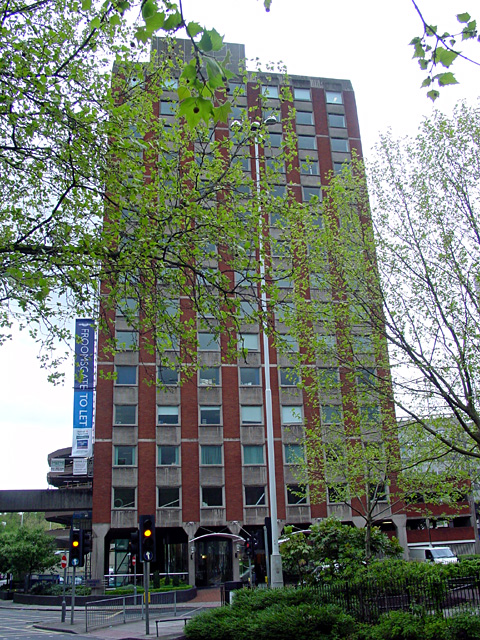 Froomsgate House. Froomsgate House was built in 1971 and is 63 m high.